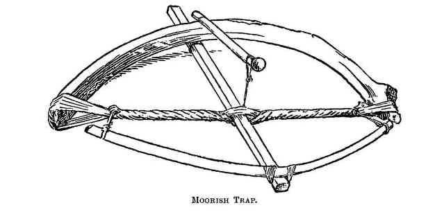 A moorish spring loaded trap